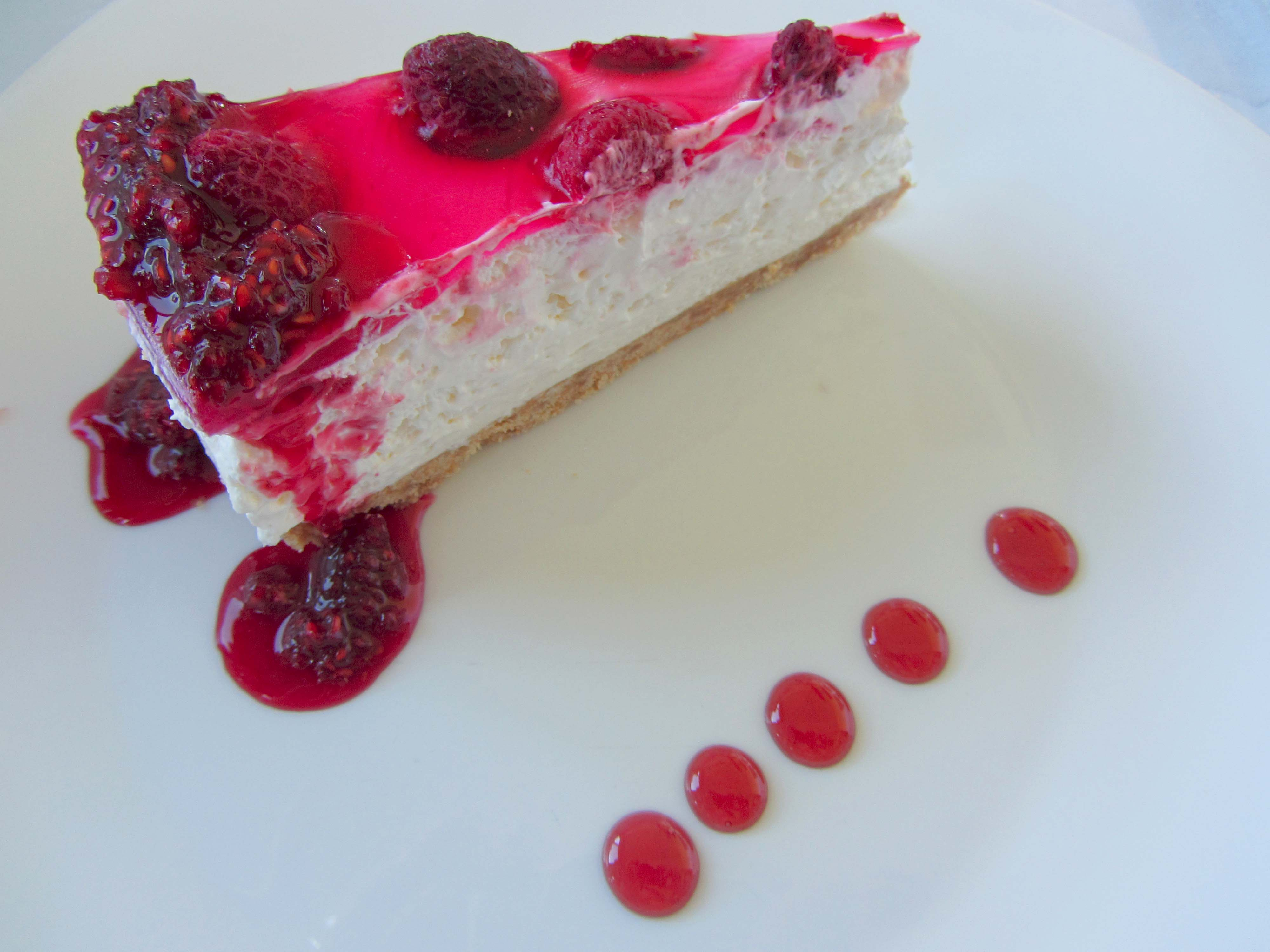 Cake with cheese cream with strawberries